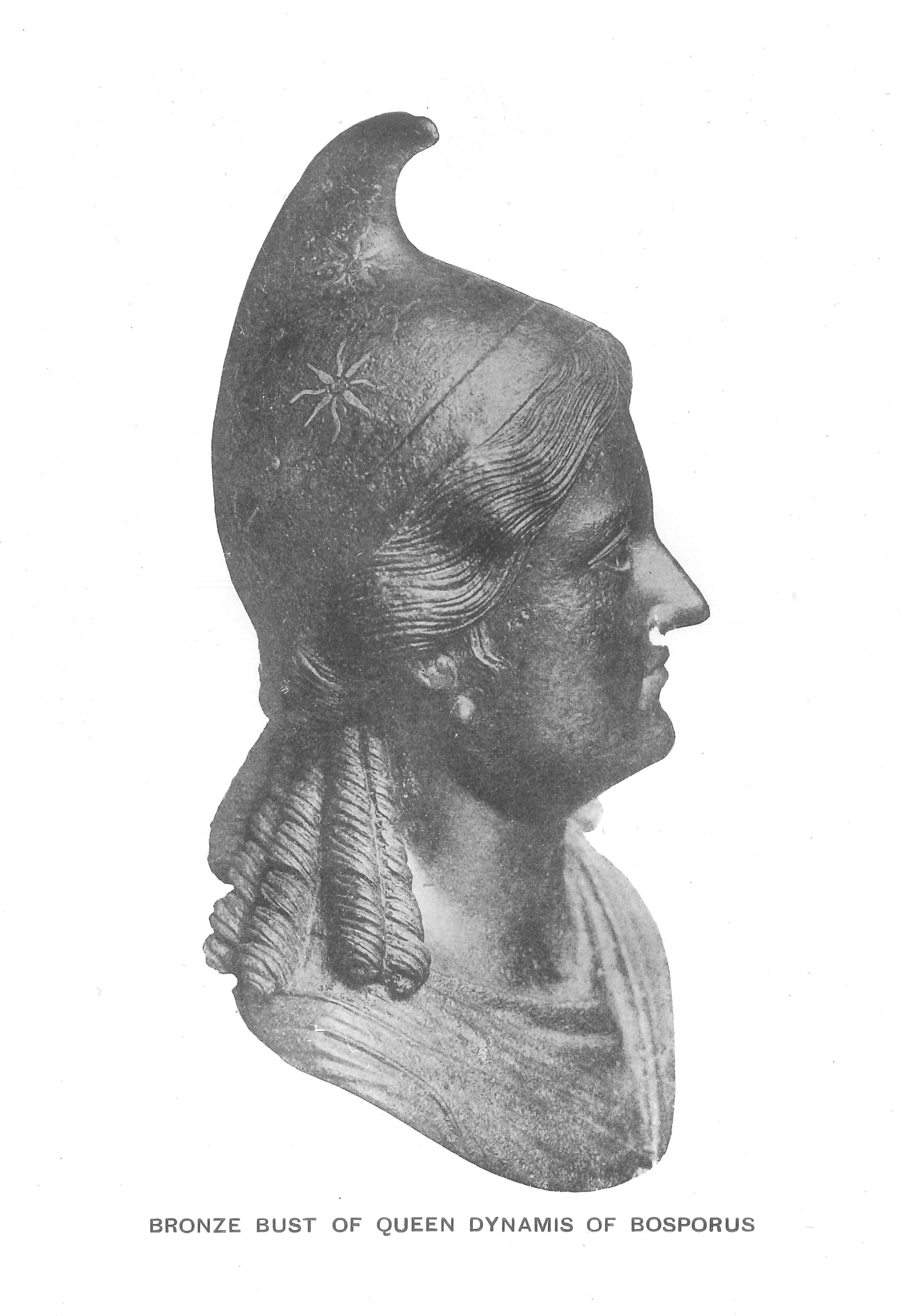 Bronze bust of a bosporan queen in the Hermitage, traditionally identified as Dynamis (but see e. g. Klaus Parlasca: Gepayris, nicht Dynamis. Die Bronzebüste einer bosporanischen Königin in Sankt Petersburg. In: Eurasia Antiqua. Vol. 15, 2009, p. 241-257).